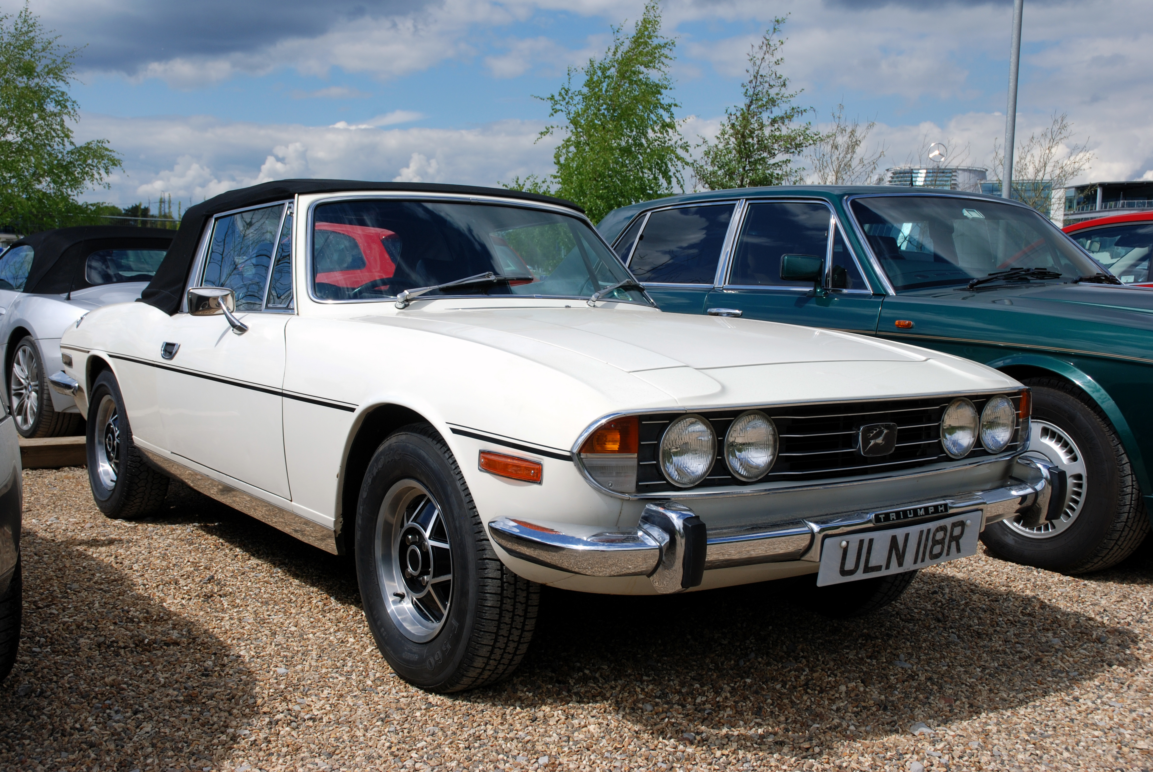 Brooklands car park,1st May 2010